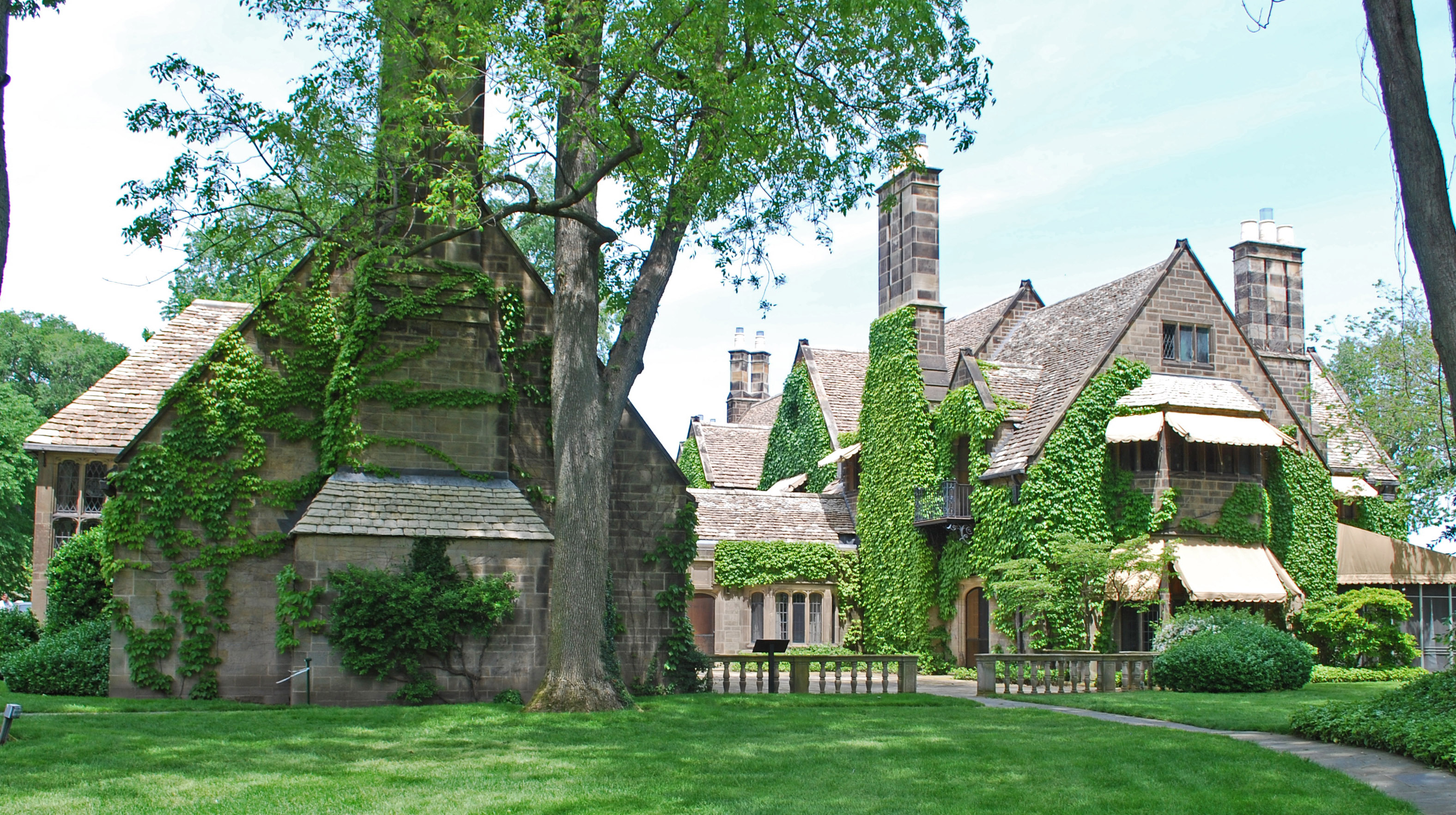 Side of Edsel and Eleanor Ford House